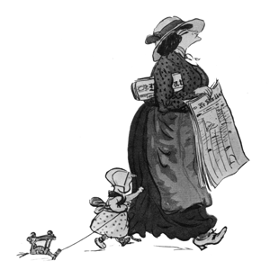 The writer Colette and her daughter Claudine in retro-clothing